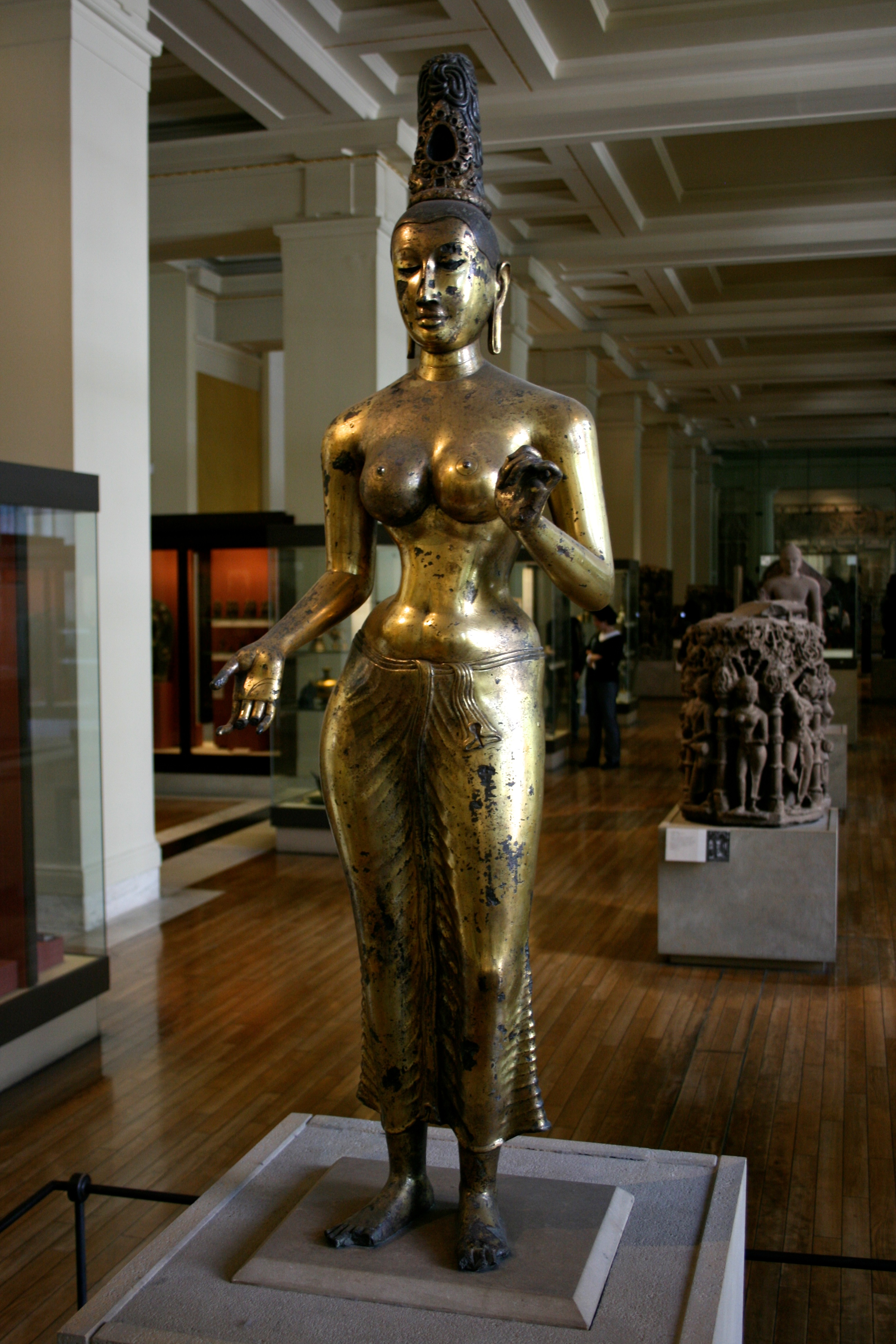 Statue of Tara. Object 54 of 100. Gilded bronze, Sri Lanka, 8th century AD. OA 1830.6-12.4. In the British Museum.